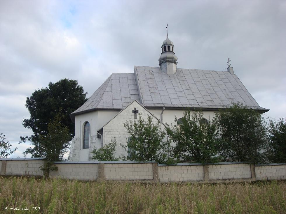 Polish Catholic Church in Tarlow